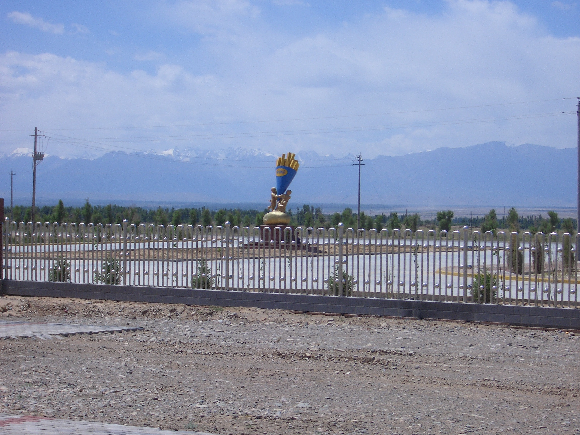 view from the AViko factory in China to the mountains. (According to other sources, the factory is Liuba Town, Minle County, Zhangye City, Gansu, China).